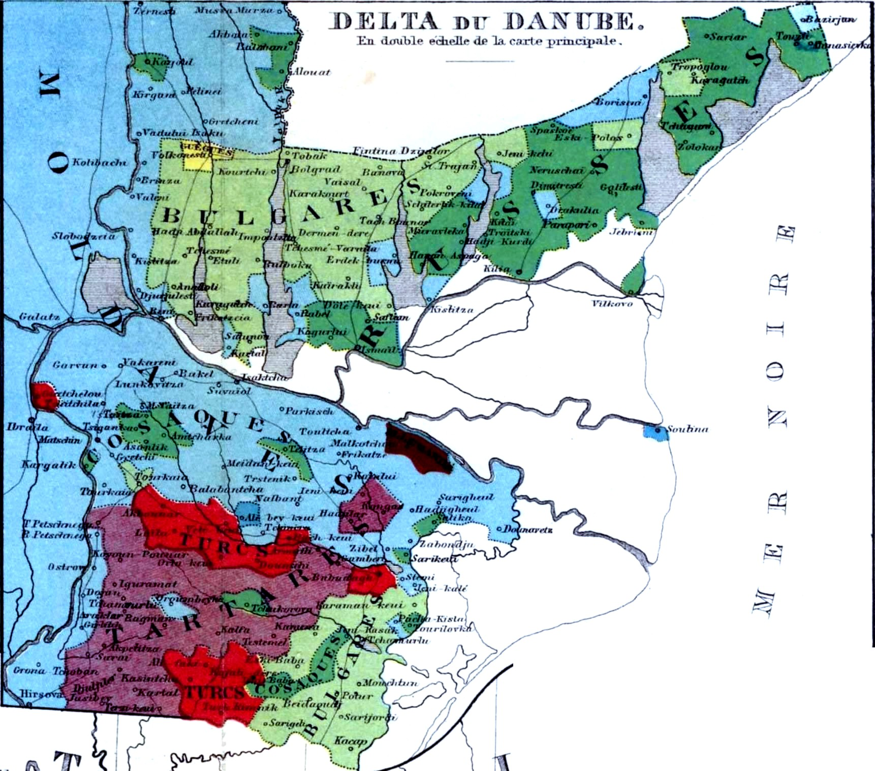 Ethnic map of the regions around the Danube mouth